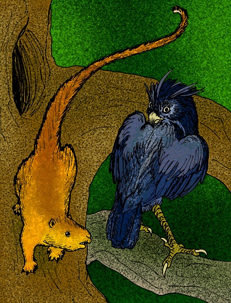 My reconstruction of the Messel Pit animals, Ailuravus macrurus (the rodent) and Strigogyps sapea (jr synonym Aenigmavis sapea) (the bird).